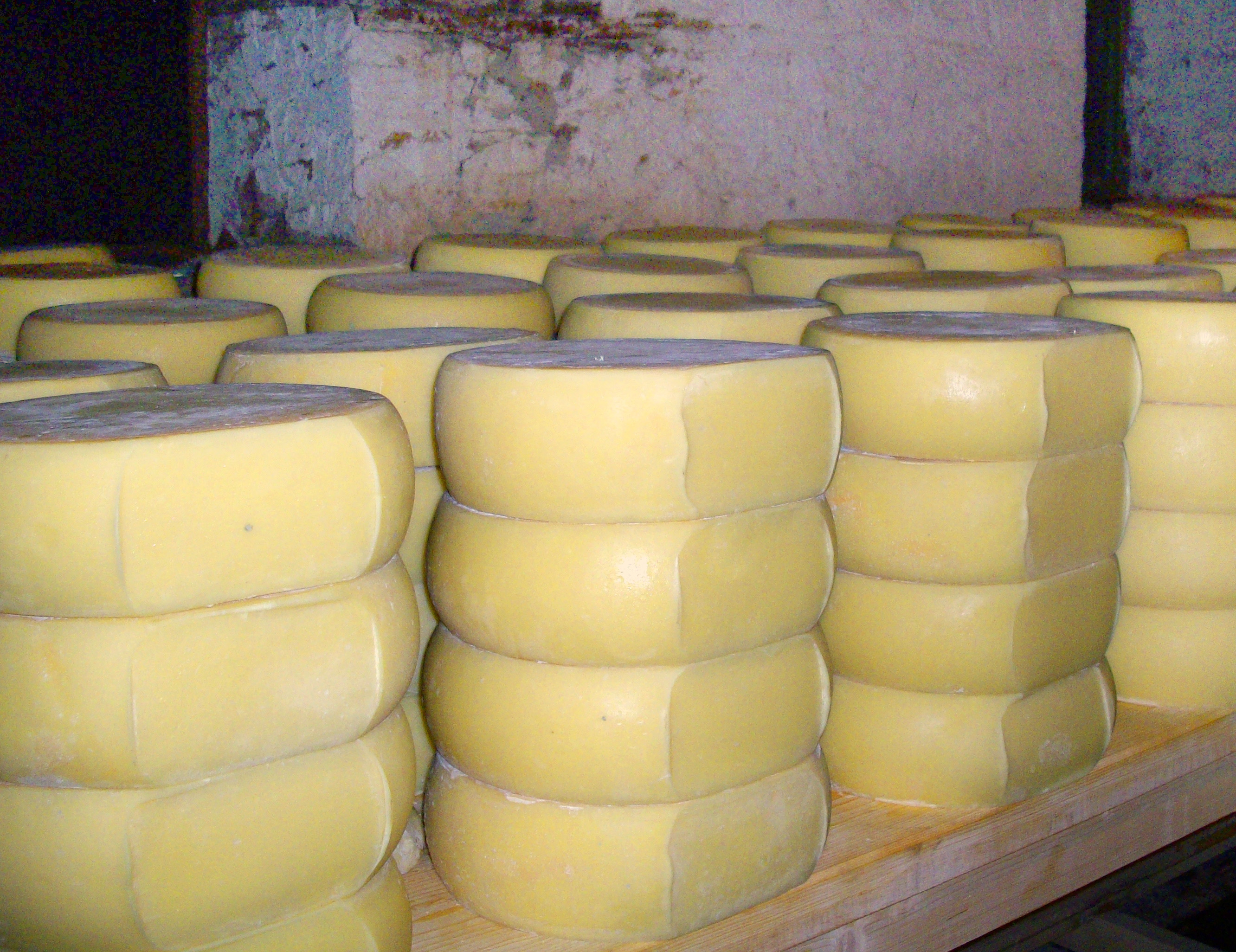 Famous cheese from the "Pasta Filata" group, traditional kashkaval cheese from Republic of Macedonia